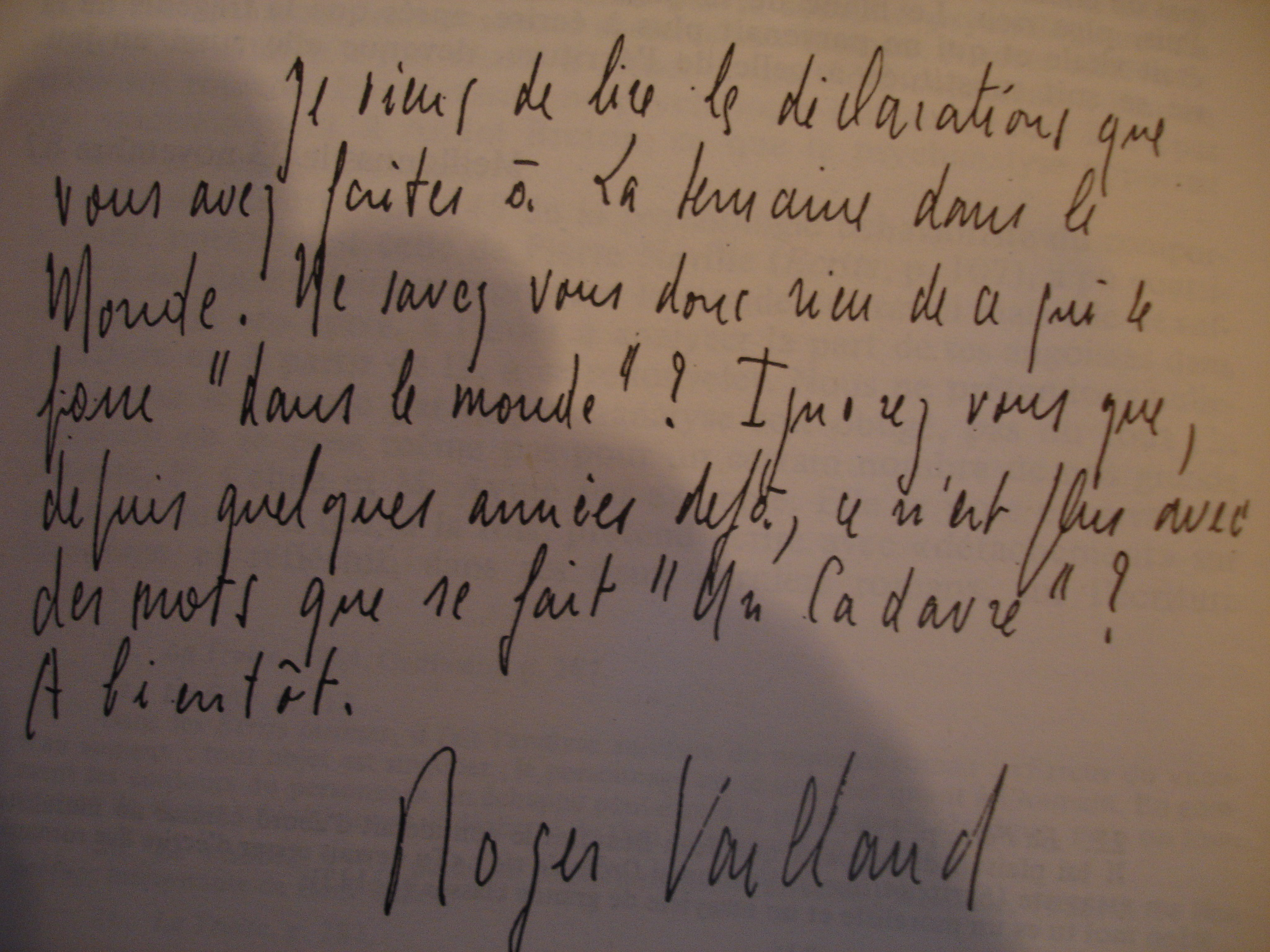 Signed letter (draft?) of Roger Vailland to André Breton, remembering surrealism and the "cadavres exquis" (excellent corpses, method for group work of surrealist artists or poets). Published in 1987 in the magazine Le Croquant (since gone). Translation of the text: I just have read the statements you made in La Semaine in Le Monde (newspaper supplement, The Week of The World?). But don't you know what is going on "in the world" [pun on the newspaper name]. Have you missed the fact that for some years already, you don't use words anymore to make a Cadavre? See you soon Roger Vailland Compare another version at andrebreton.fr Letter of Roger Vailland to André Breton, Paris August 12, 1948